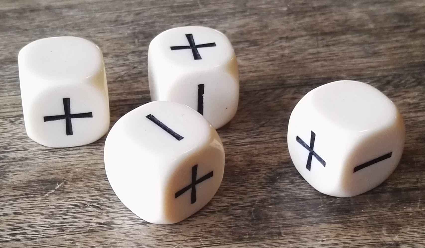 Four white "Fudge dice", as used by the Fudge RPG system.